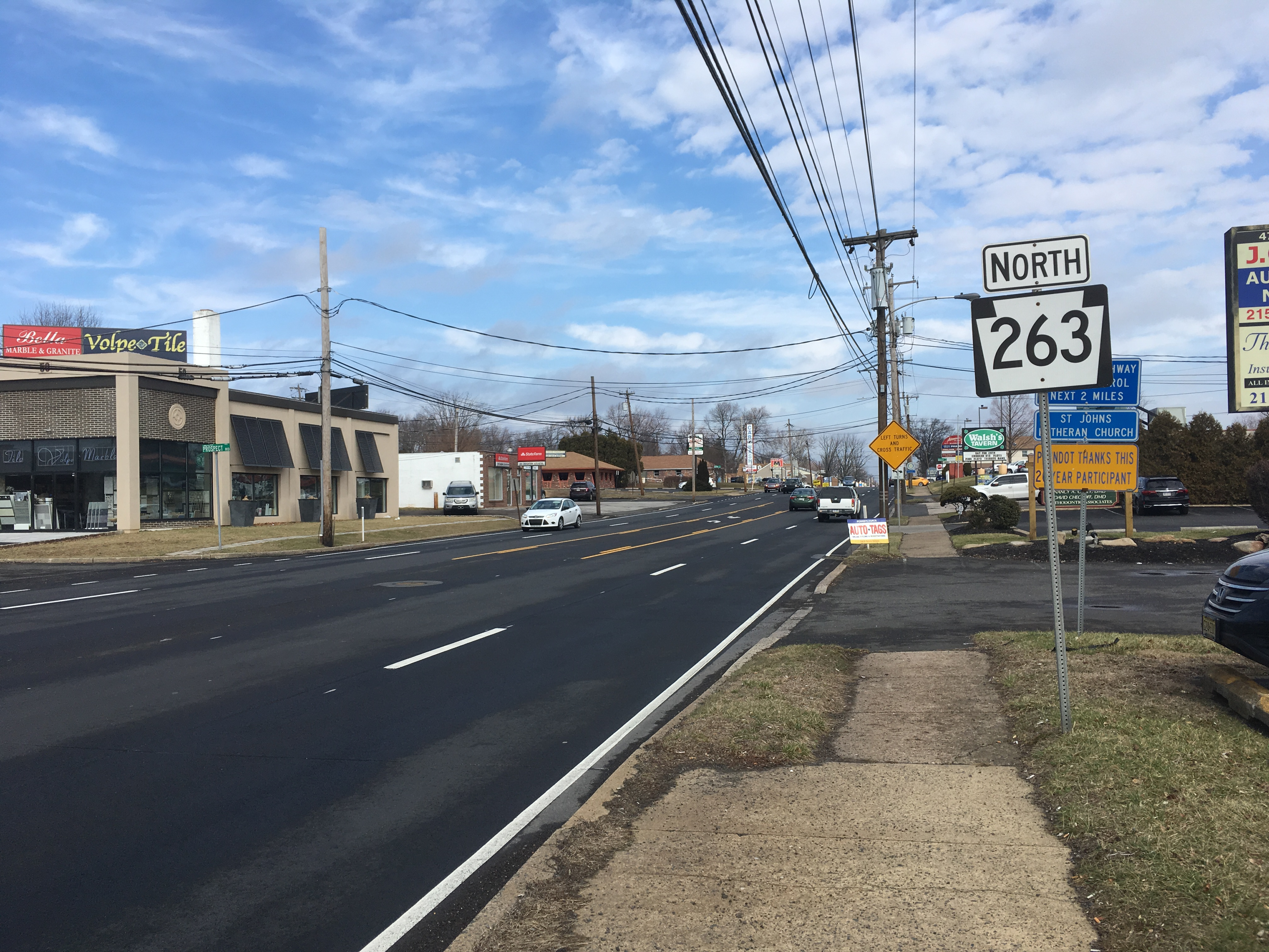 Northbound Pennsylvania Route 263 (York Road) past the intersection with County Line Road in Warminster, Pennsylvania